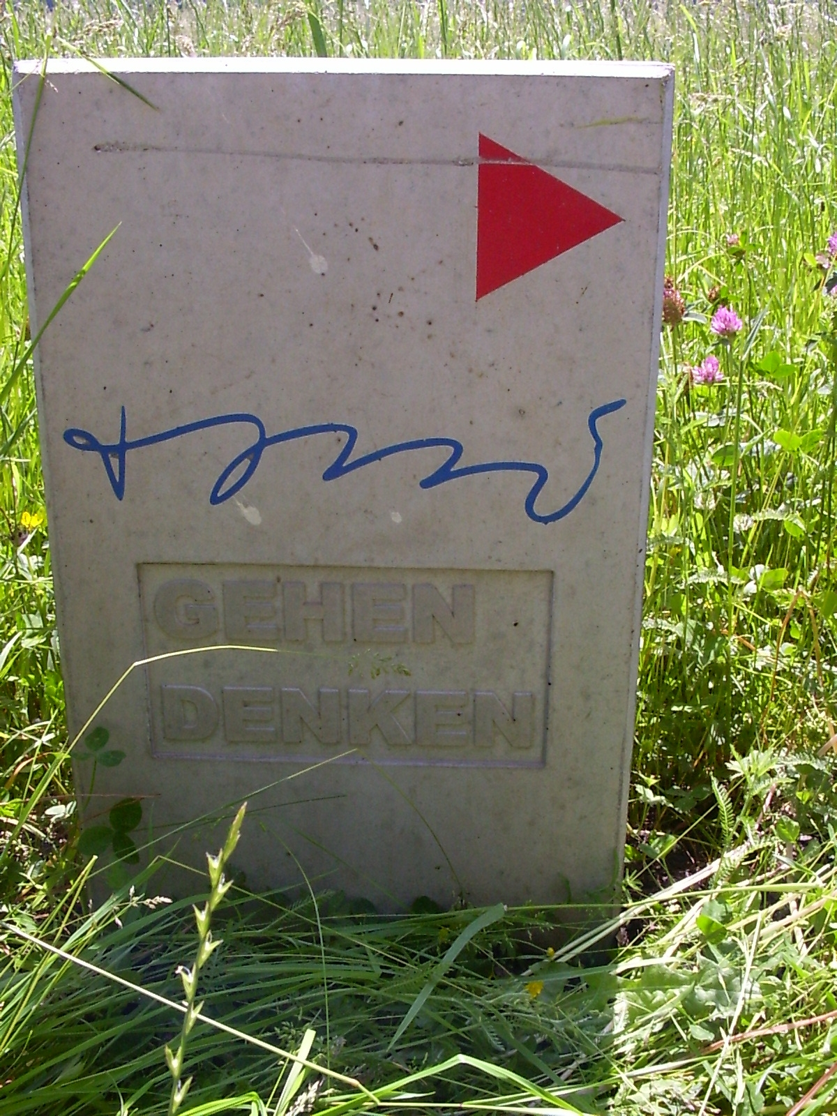 Thomas Bernhard way Austria Forum Composerbook